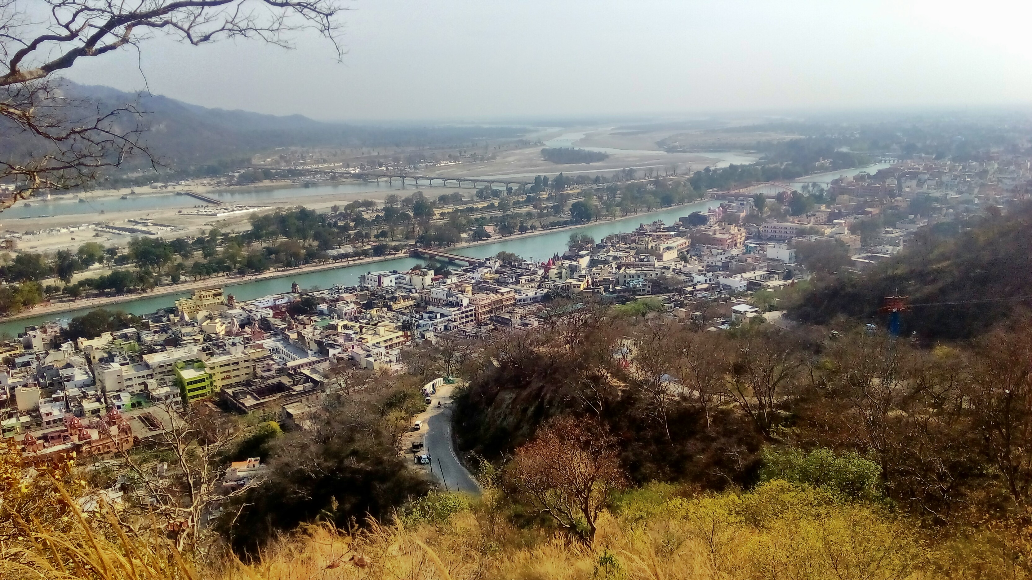 It is beautifull view from the famous Mansha Devi Temple, Haridwar(UK)